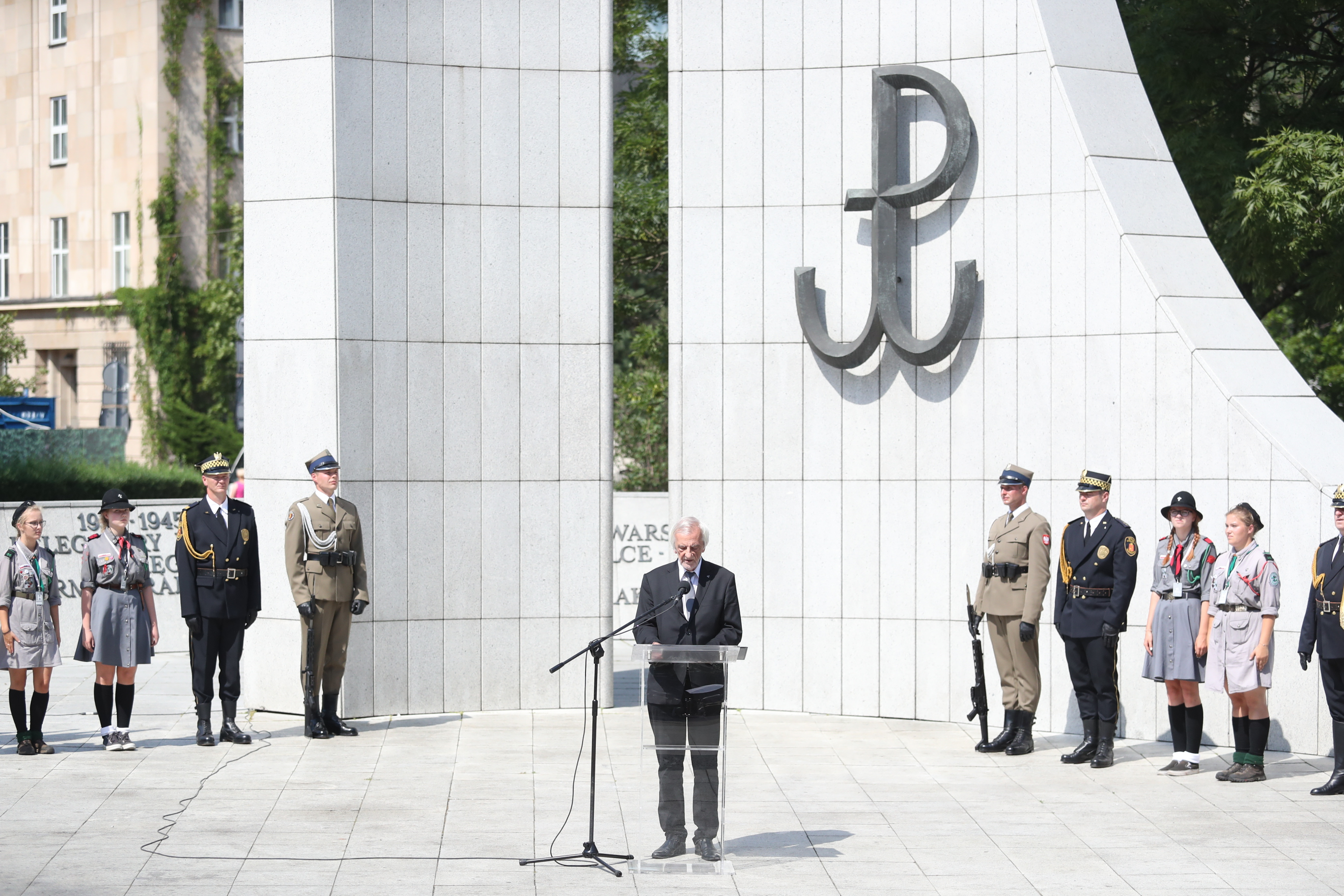 Deputy Speaker of the Sejm of the Republic of Poland Ryszard Terlecki. 73rd Anniversary of the Warsaw Uprising 1944.